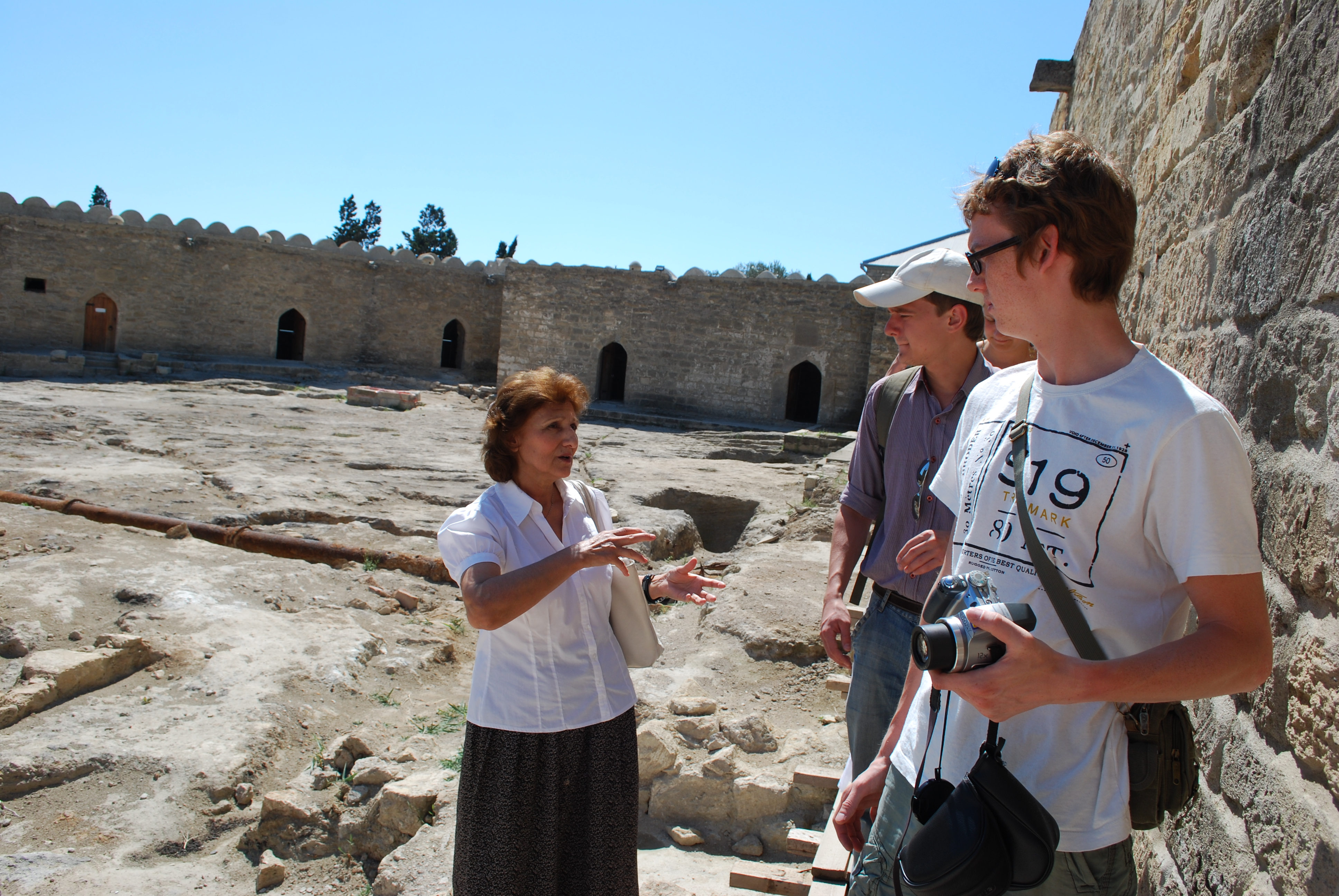 International students at Khazar